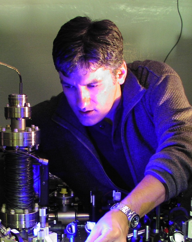 Chris Monroe in Lab